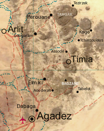 Map of the southern half of the Air Massif, northern Niger. Created from an overlay of PD File:Un-niger.png and PD File:Niger_BMNG.png, plus map locations derived from .